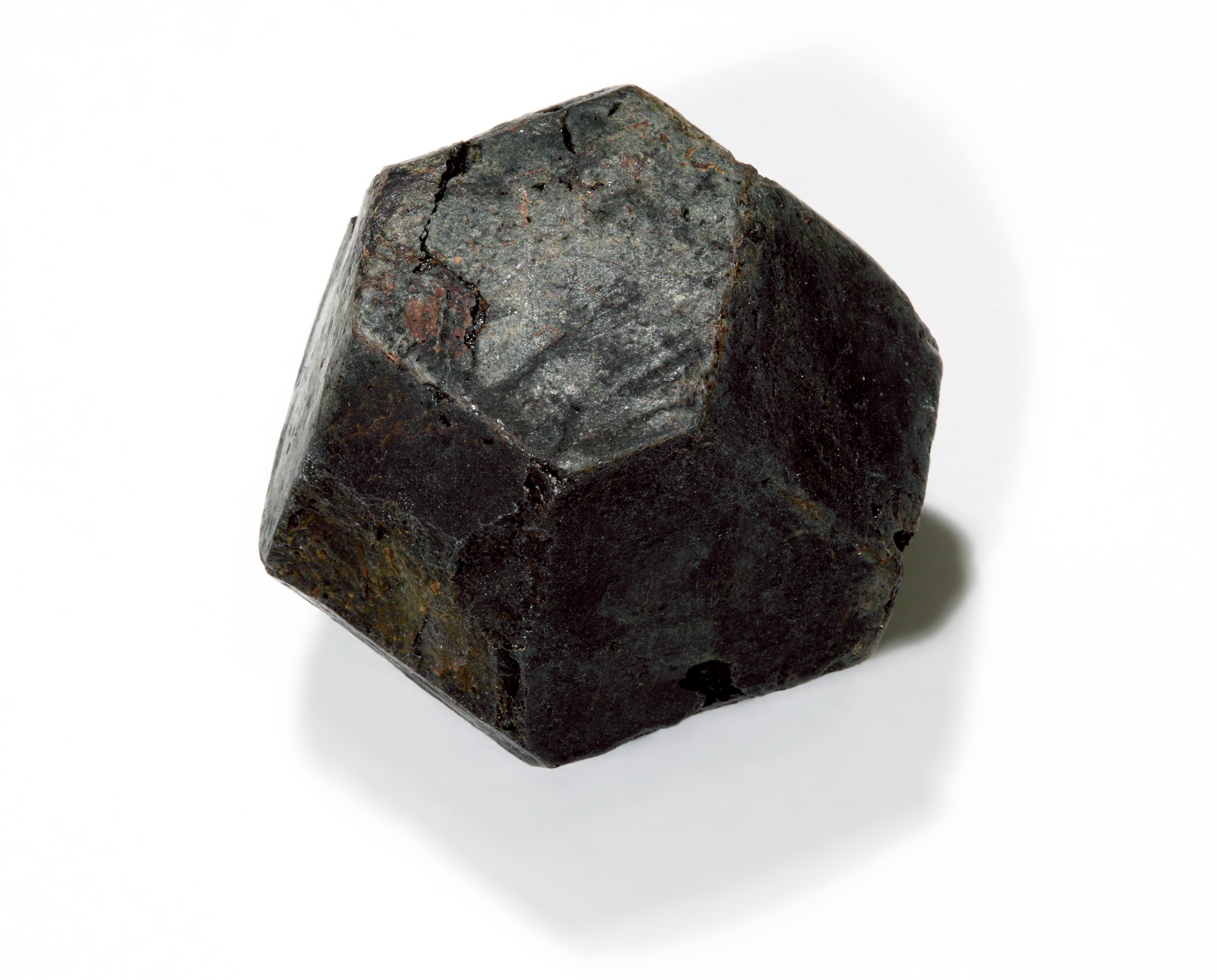 Betafite crystal, chemical formula: (Ca,U)2(Ti,Nb,Ta)2(O,OH)7. locality „Silver Crater Mine“ in Bancroft, Ontario, Canada. Size ca. 27•23•20 mm. Collection M.R.